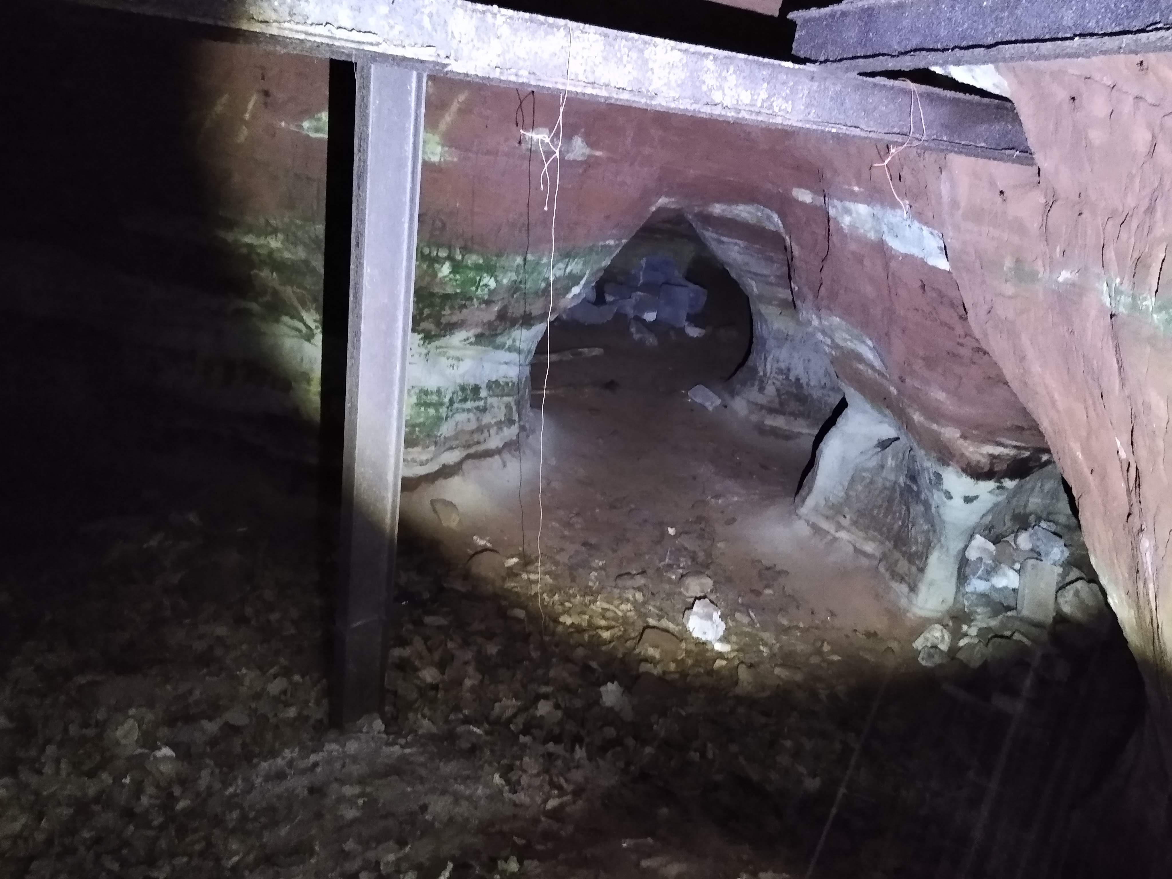 Snake Caves Exit - Einöd Saar